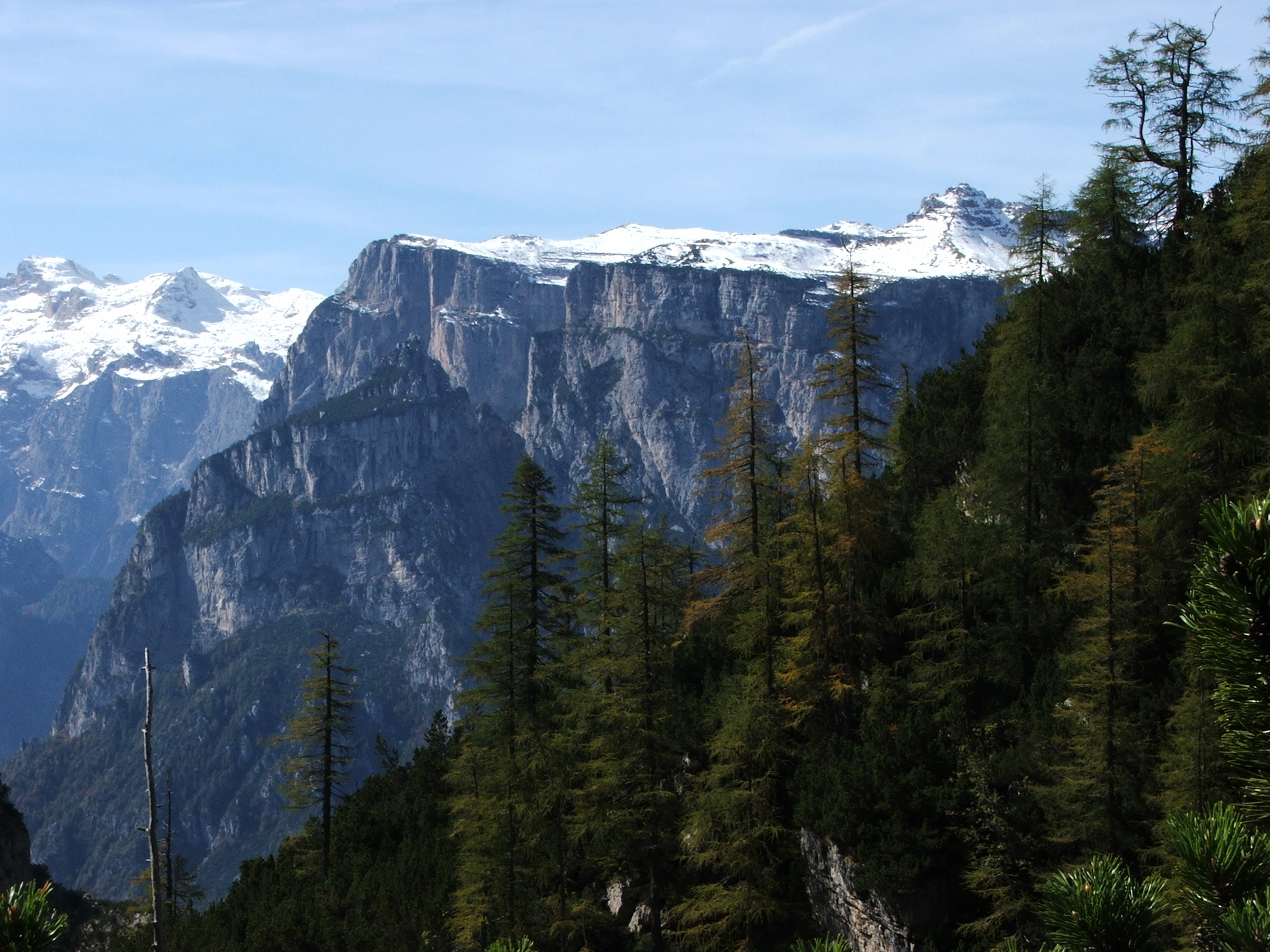 Dolomites, Northern Italy: Looking southwest from the Forcella Col dell' Orso on the west side of Mt. Civetta towards Pale di San Lucano. Pala di San Martino is on the left